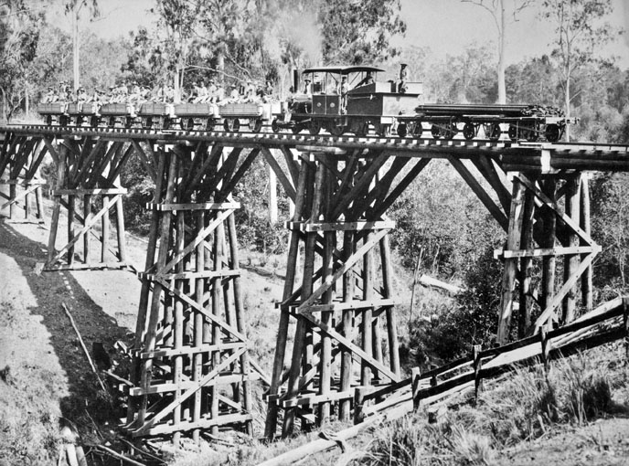 Railway workers crossing Chinamans Creek Bridge. (A note on the reverse of the photograph suggests this bridge may be in the vicinity of Maryborough.)